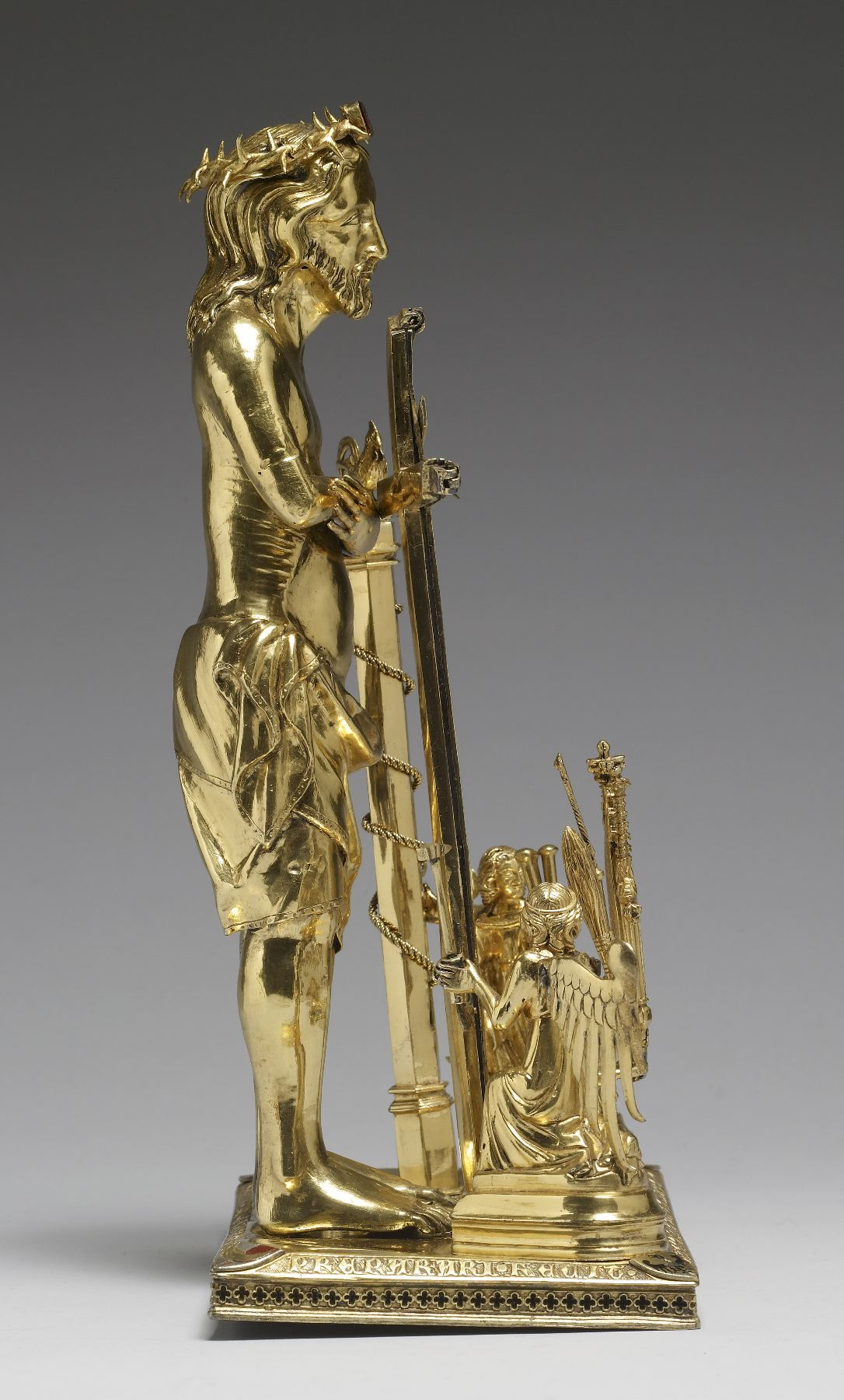 The image of the Man of Sorrows is a distillation of the events of Christ's Passion. Christ contemplates with sorrow the instruments of his suffering: the cross and hammer, whips, nails, column of the Flagellation, and the dice thrown by the soldiers for his garments. The gabled container held by an angel once housed a thorn believed to be from Christ's Crown of Thorns, while the hinged cross and column probably held pieces of wood believed to be from Christ's cross and from the column against which he was whipped. According to an inscription on the base, the reliquary was ordered by the bishop of Olomouc in Moravia to house the Holy Thorn. It was surely a present for Holy Roman Emperor Charles IV. Both men's coats of arms (those of Moravia and Bohemia) are on the base, and the thorn was already in the emperor's famous collection of relics, as a gift from the king of France. As Charles reigned over both Bohemia and Moravia only from 1347 to 1349, the piece dates to this time. The sophisticated workmanship is characteristic of objects created for the imperial court in Prague.